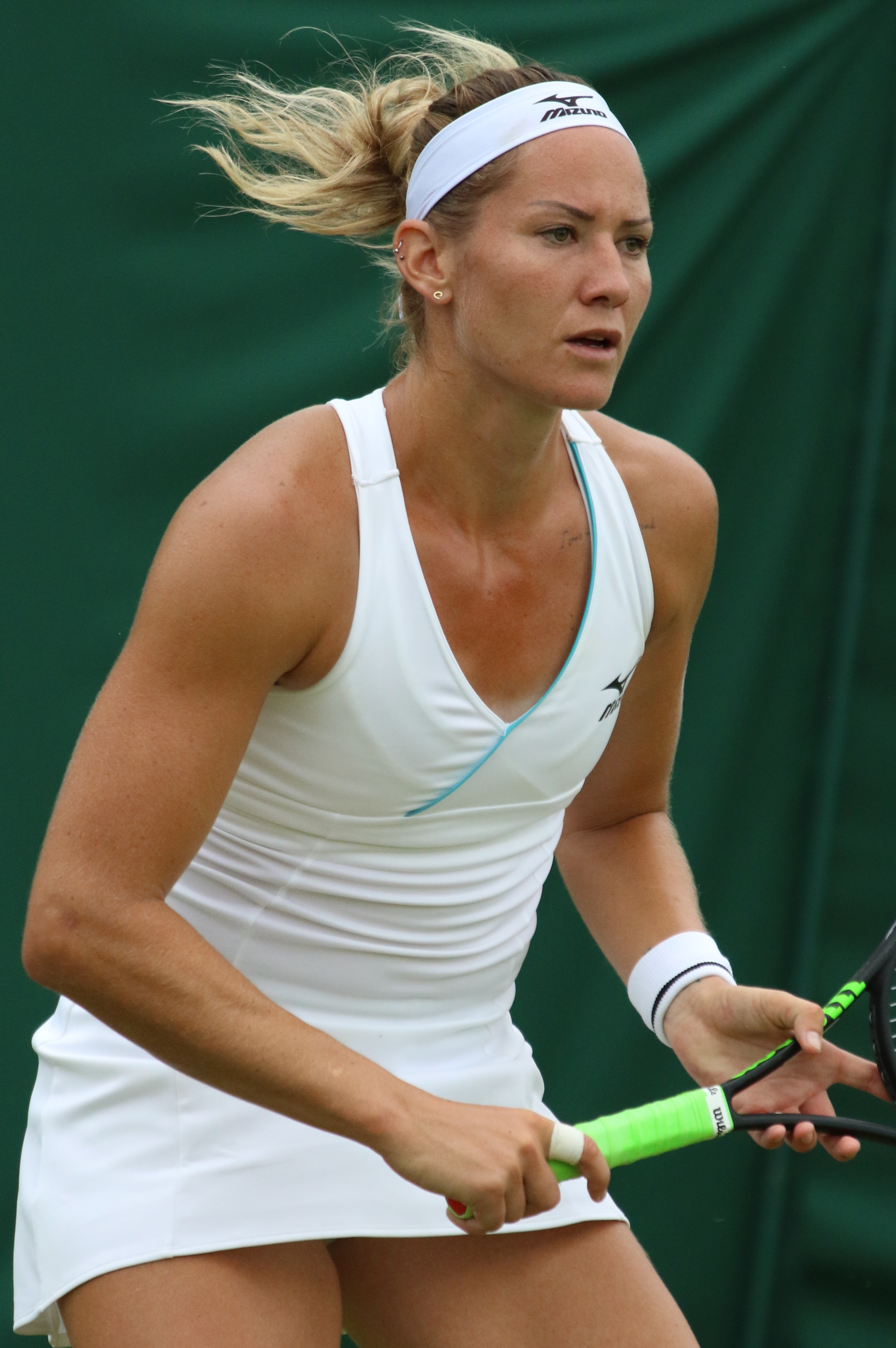 2019 Wimbledon Qualifying Tournament.